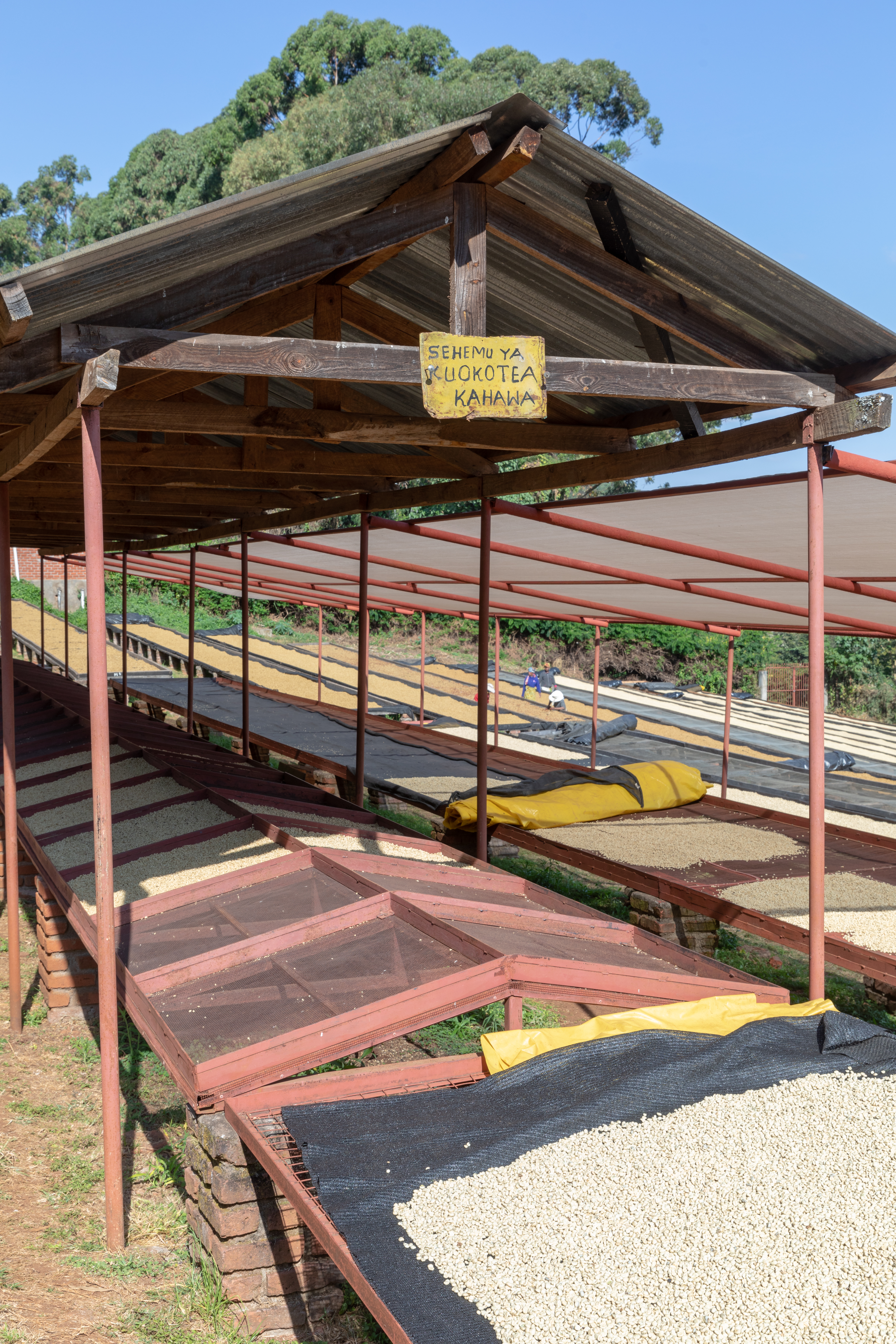 Impressions from a coffee plantation near Karatu, Tanzania.